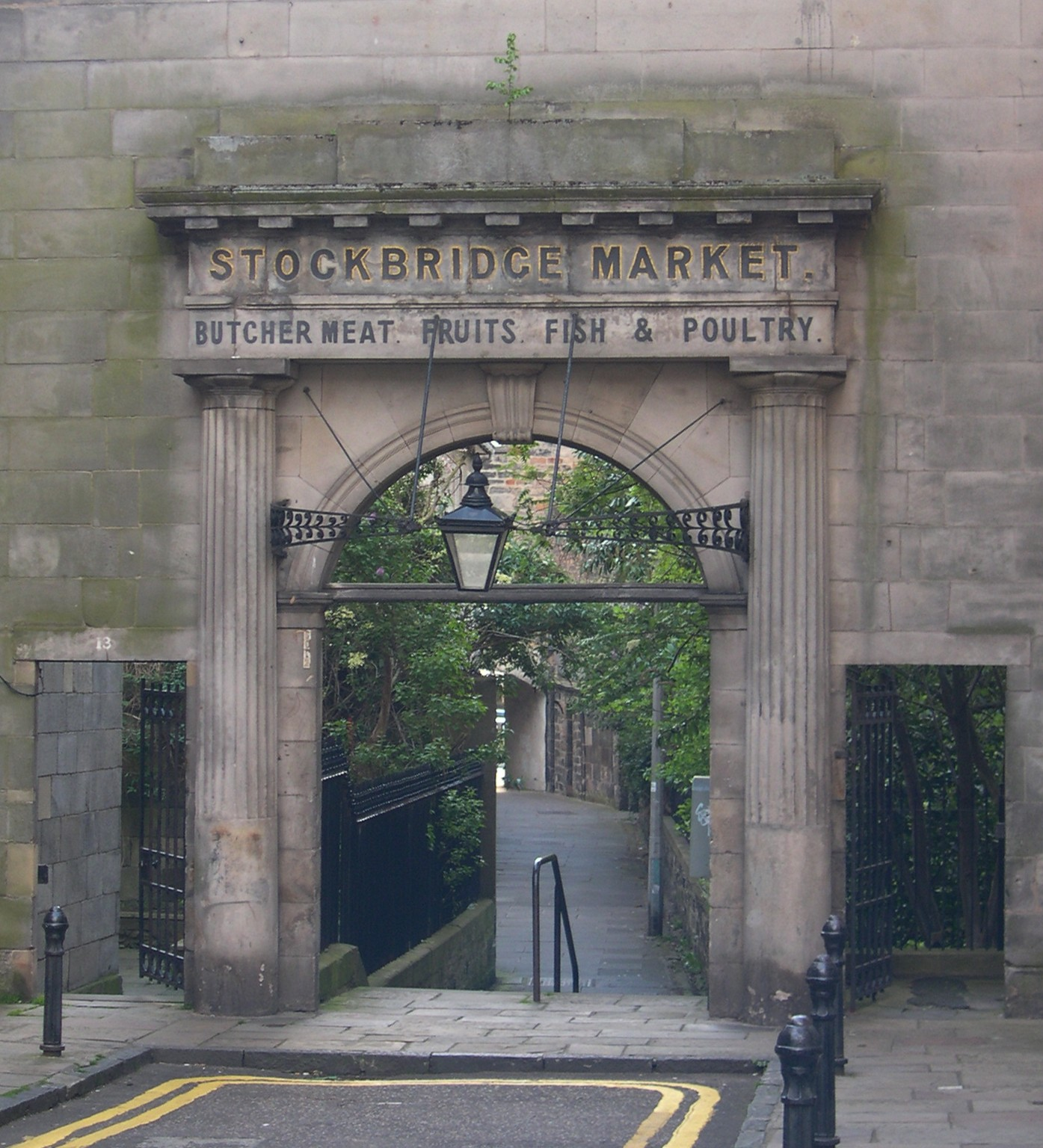 Old entrance to Stockbridge Market, Edinburgh, Scotland.